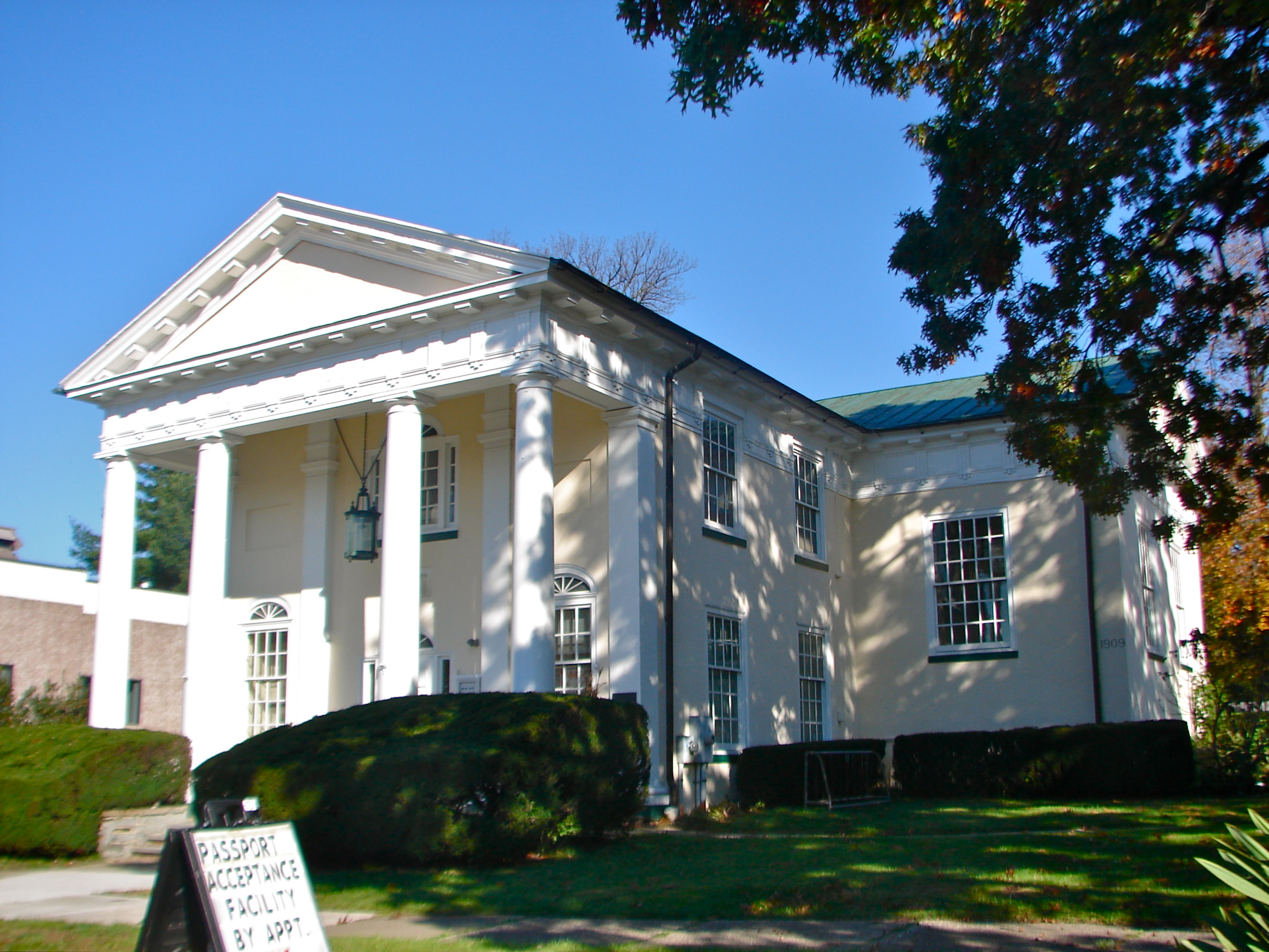 Exterior of Jenkins' Town Lyceum Building. On the NRHP since October 16, 1979. At Old York and Vista Roads, Jenkintown , Montgomery County, Pennsylvania. Furness & Evans, architects.